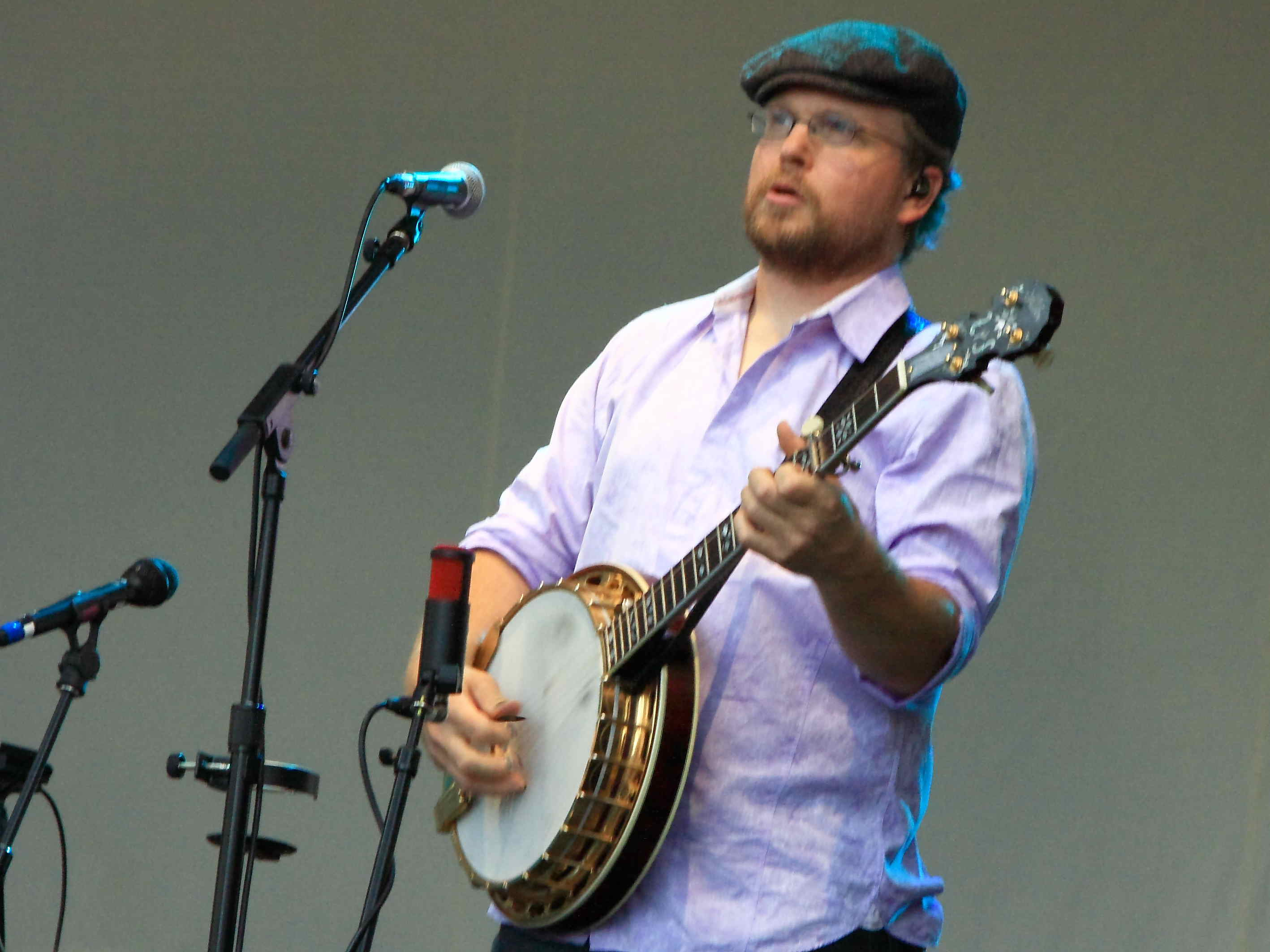 Alison Krauss & Union Station at TFF Rudolstadt 2012